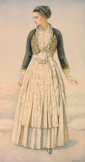 Greek Macedonian Peasant Woman's Dress (Macedonia, Verroia) - Greek Costume Collection by NICOLAS SPERLING (Russia 1881-1940 / act: Athens).